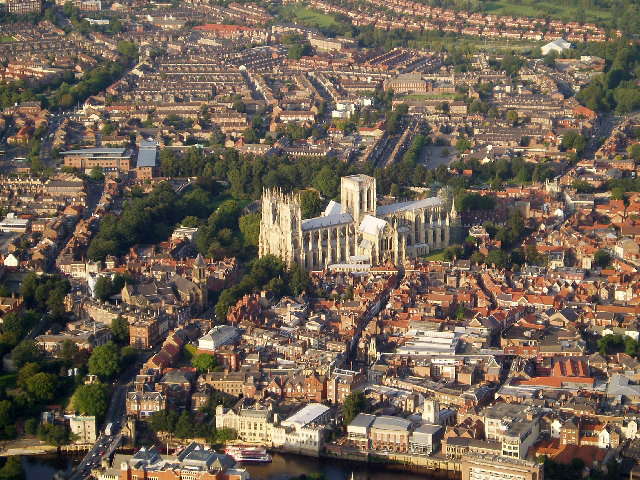 York City Centre (including York Minster), in North Yorkshire, England.